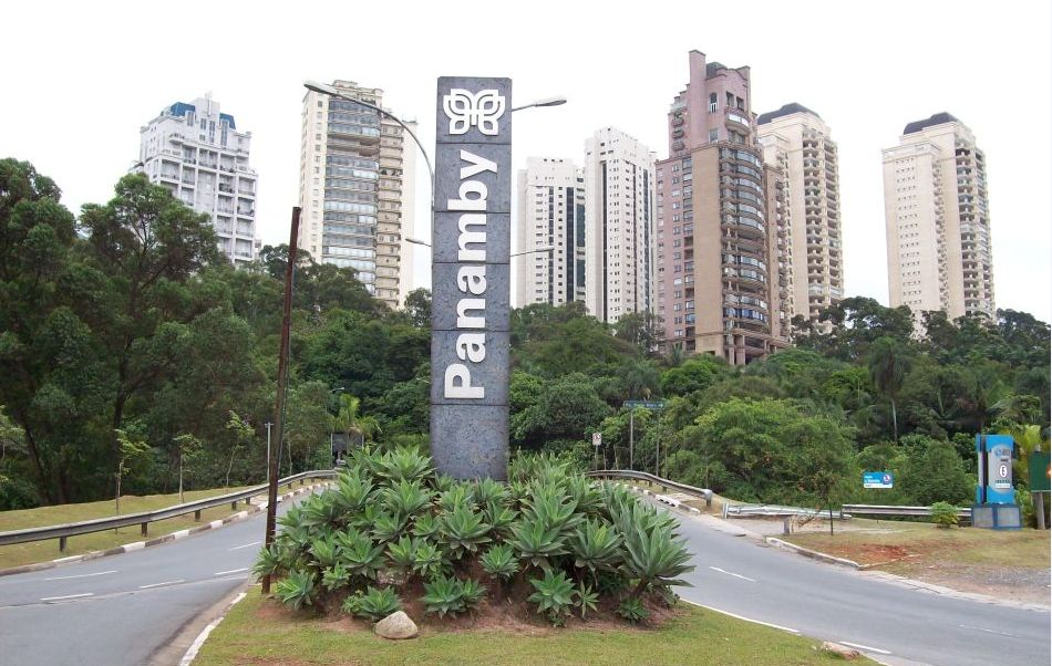 Panamby, neighborhood of São Paulo City.